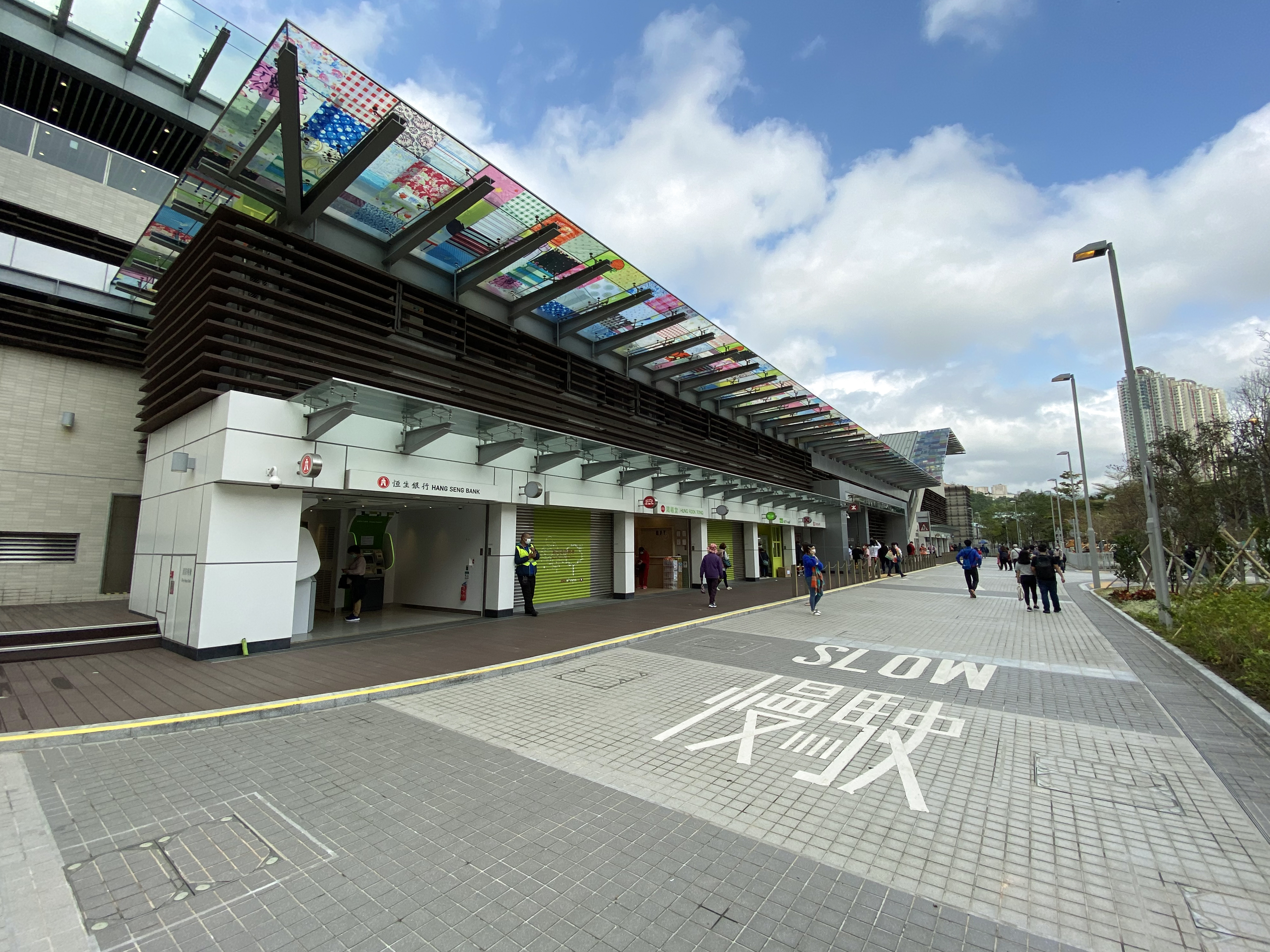 Hin Keng Station Outside shops